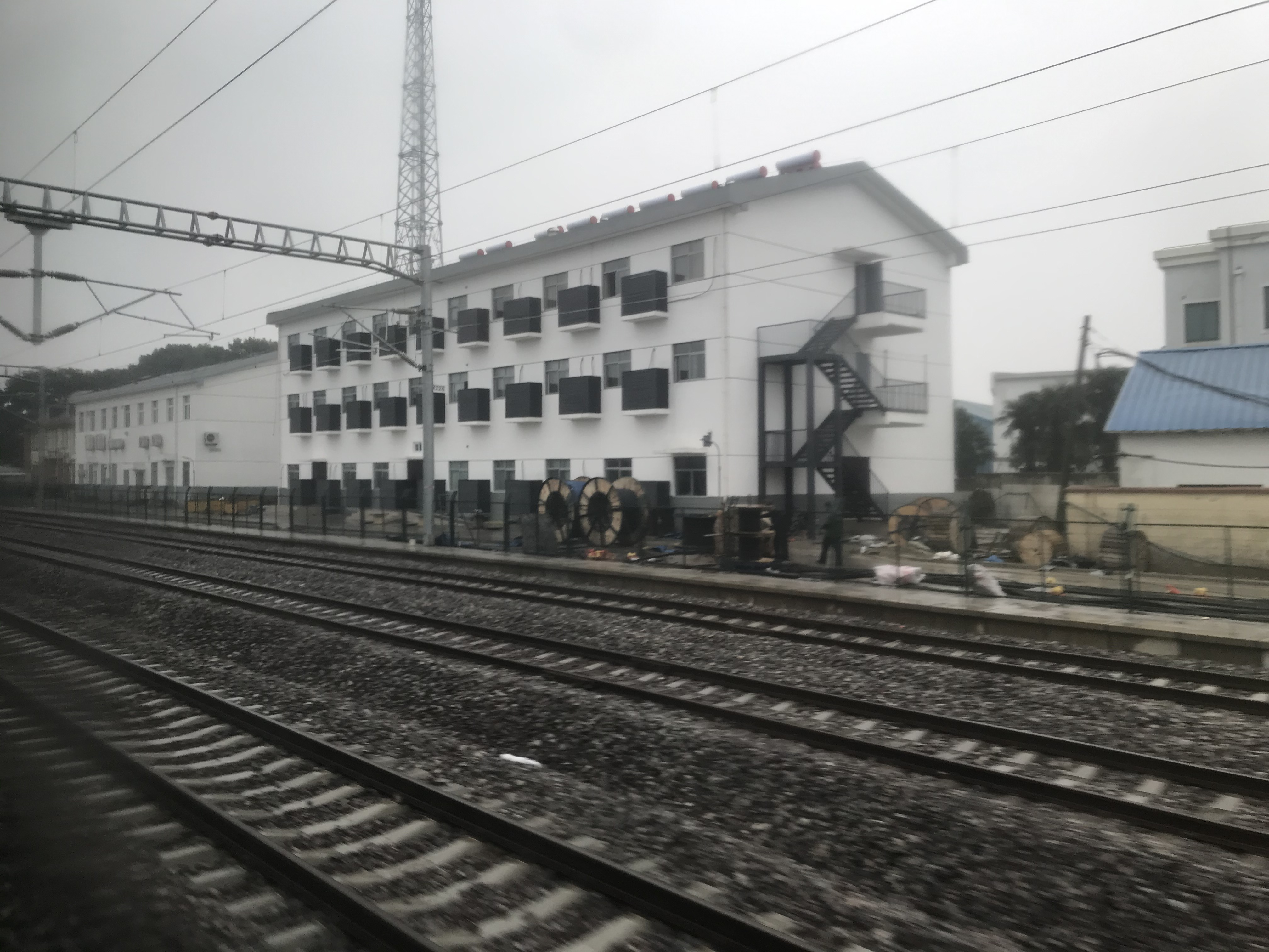 202001 New Station Building of Anting Station